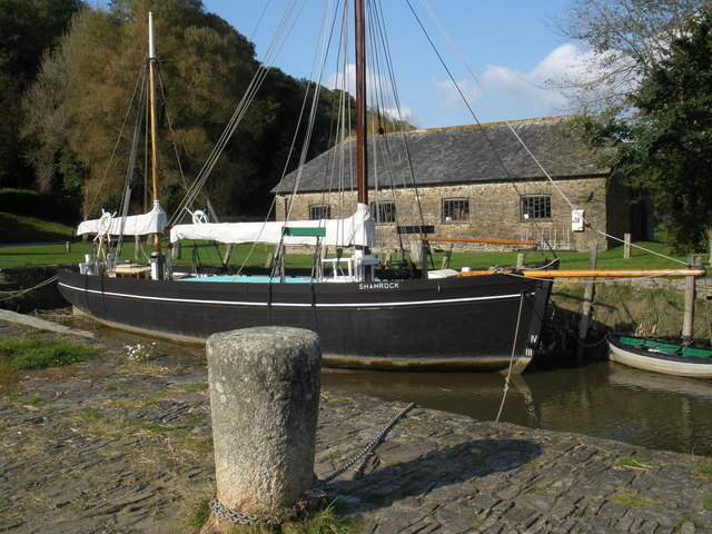 Cotehele Quay